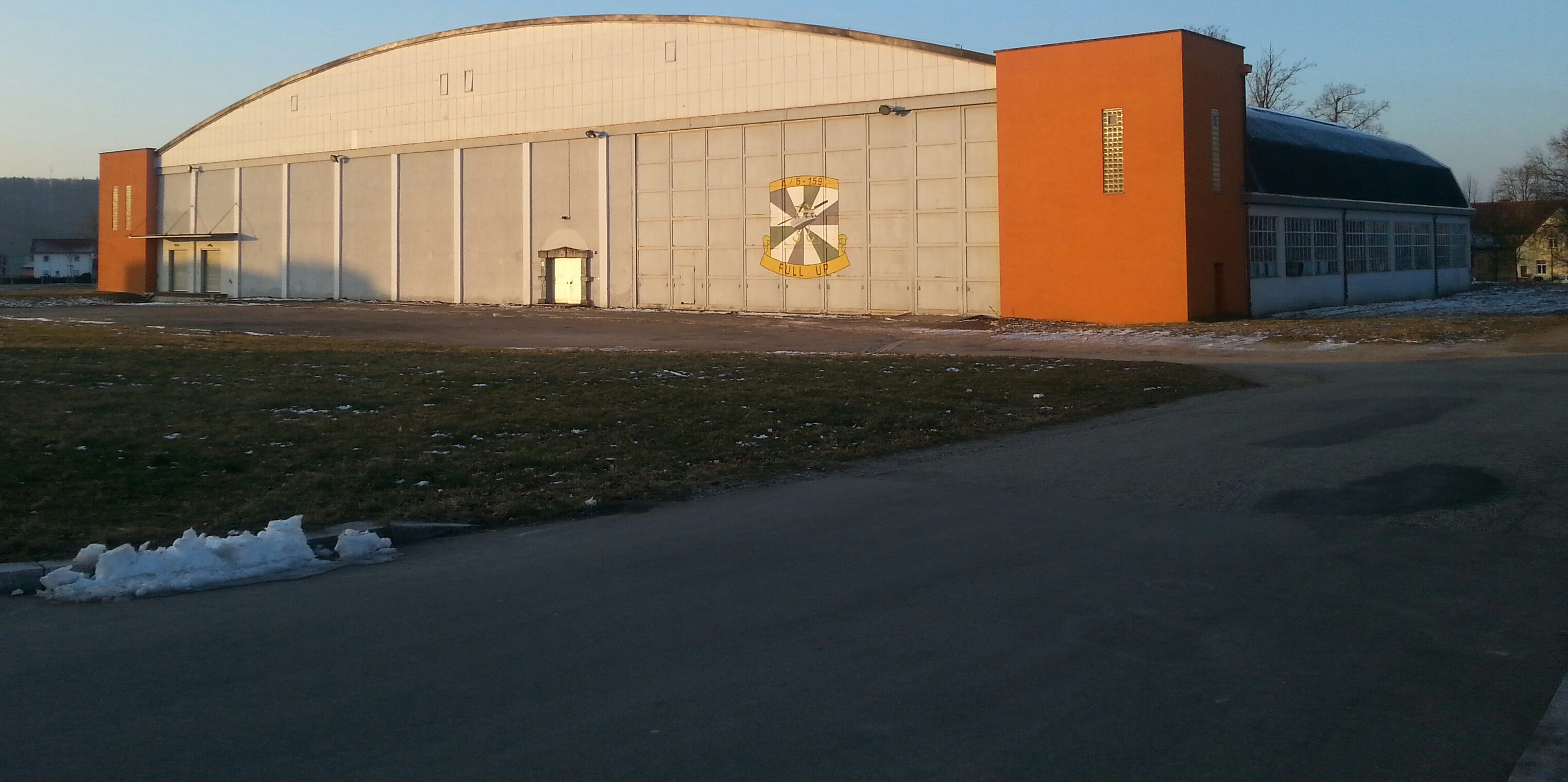 Hangar used by the Luftwaffe during the 2nd World War and thereafter by the US Air Force (part of the Dolan Barracks in Hessental, Baden-Württemberg, Germany).